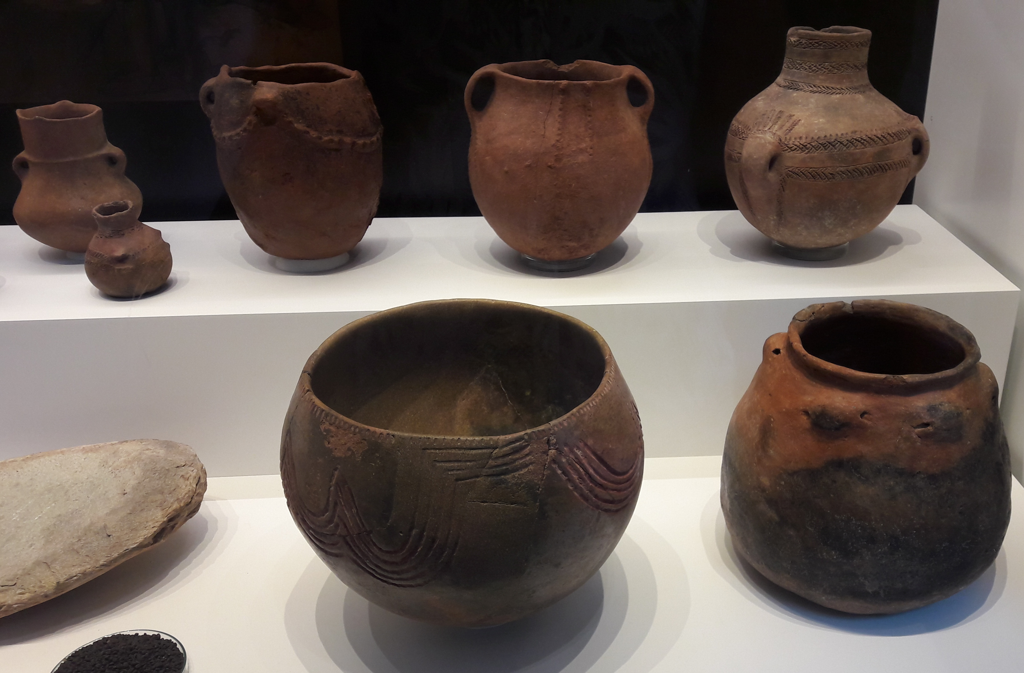 Neolithic ware. Hand-modelled clay. Neolithic 7.000-5.500 BP. From Cave of Nerja, San Telmo (Málaga), Cave Hoyo de la Mina (Málaga), Humo Caves (Málaga) and Cave of El Gato (Benaoján). Museo de Málaga, Spain.